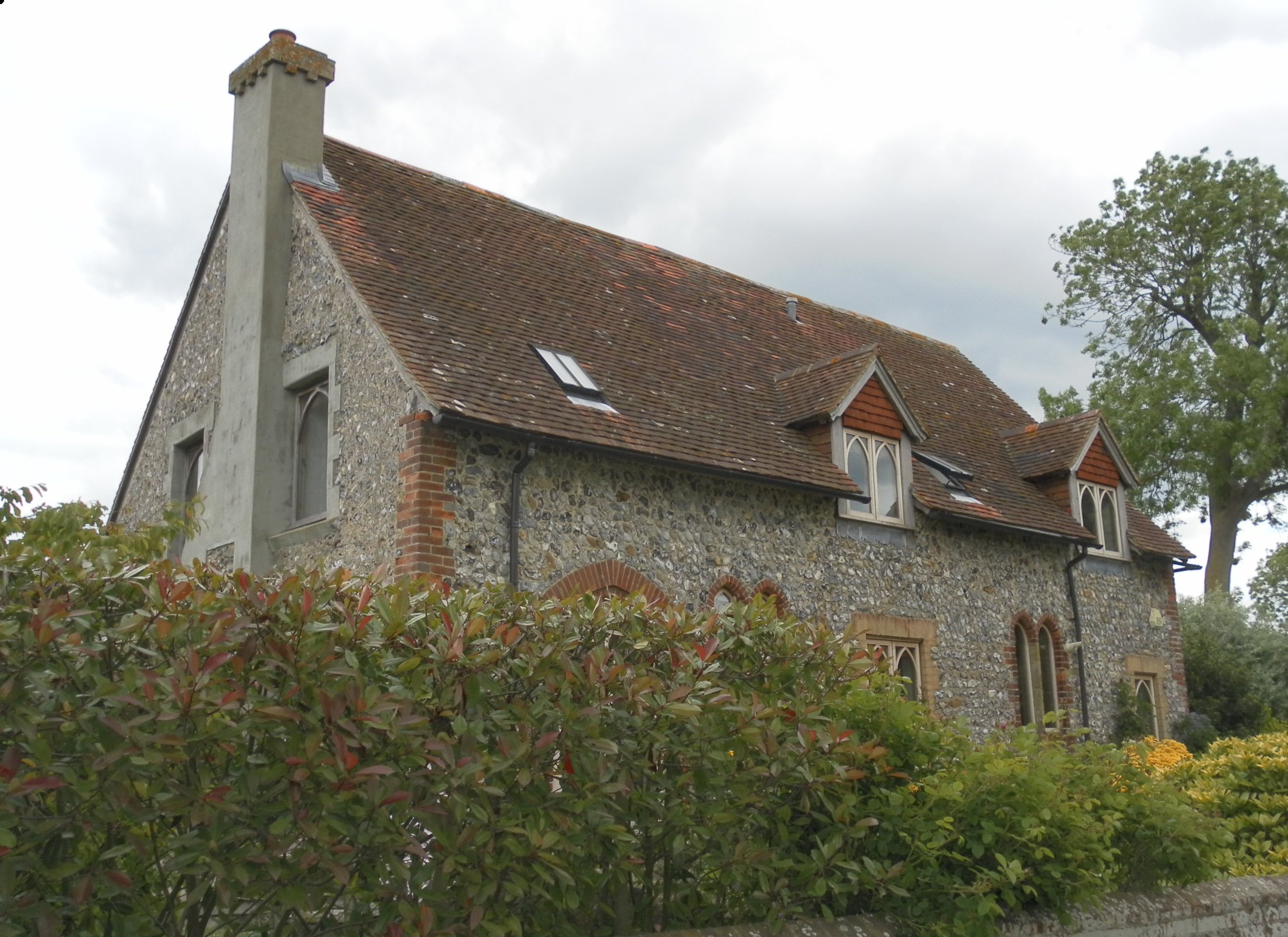 Former Bilsham Chapel, Bilsham Lane, Bilsham, Arun District, West Sussex, England. A 13th/14th-century chapel which fell out of use before the Reformation and is now a house. Listed at Grade II by English Heritage (NHLE Code 1222544)